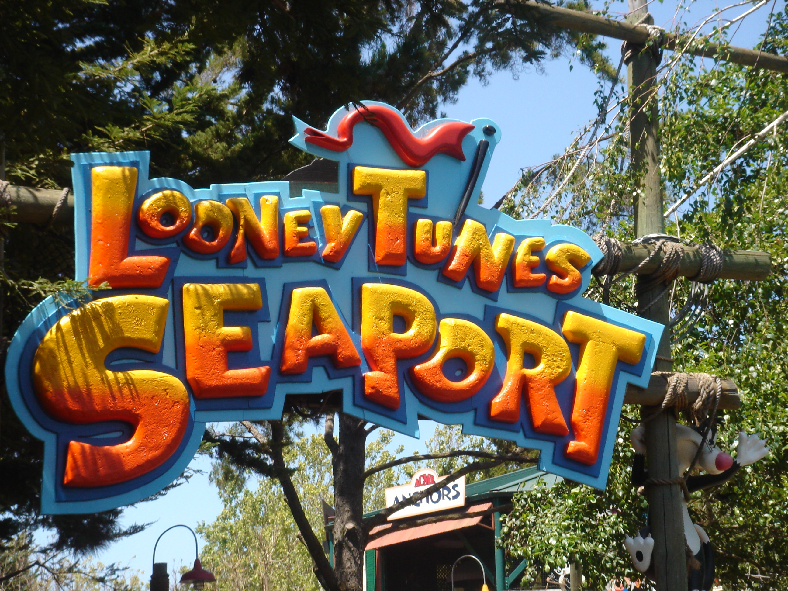 California Trip May 2008 963